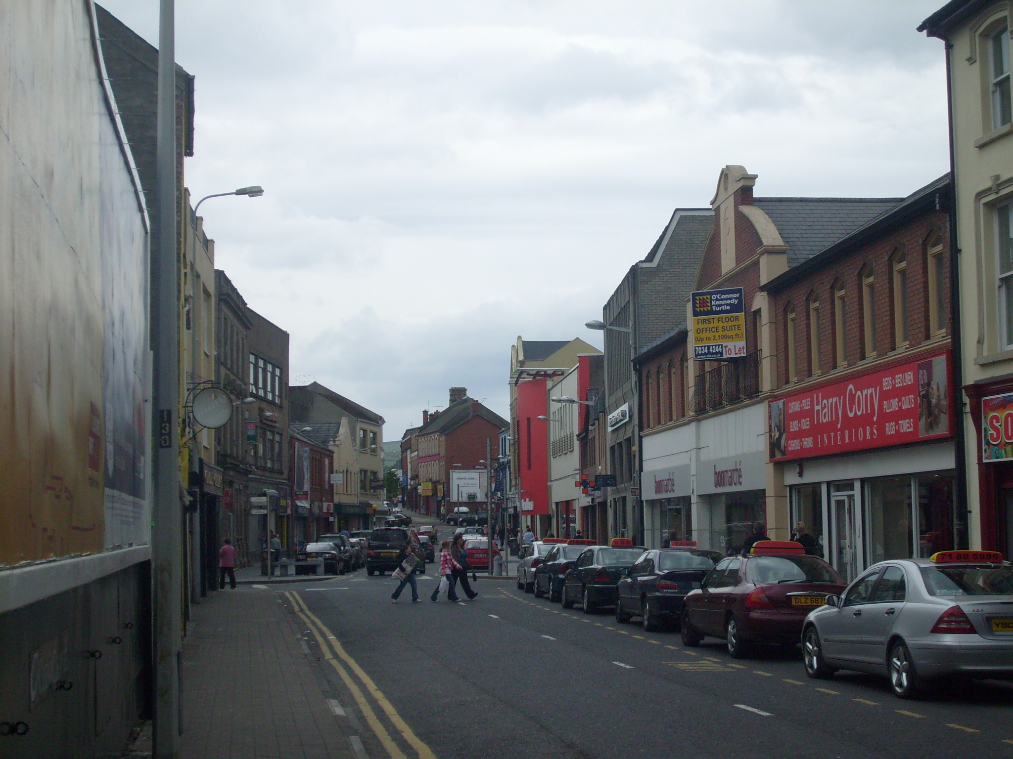 Stabane (An Srath Bán), Co Tyrone, Northern Ireland.